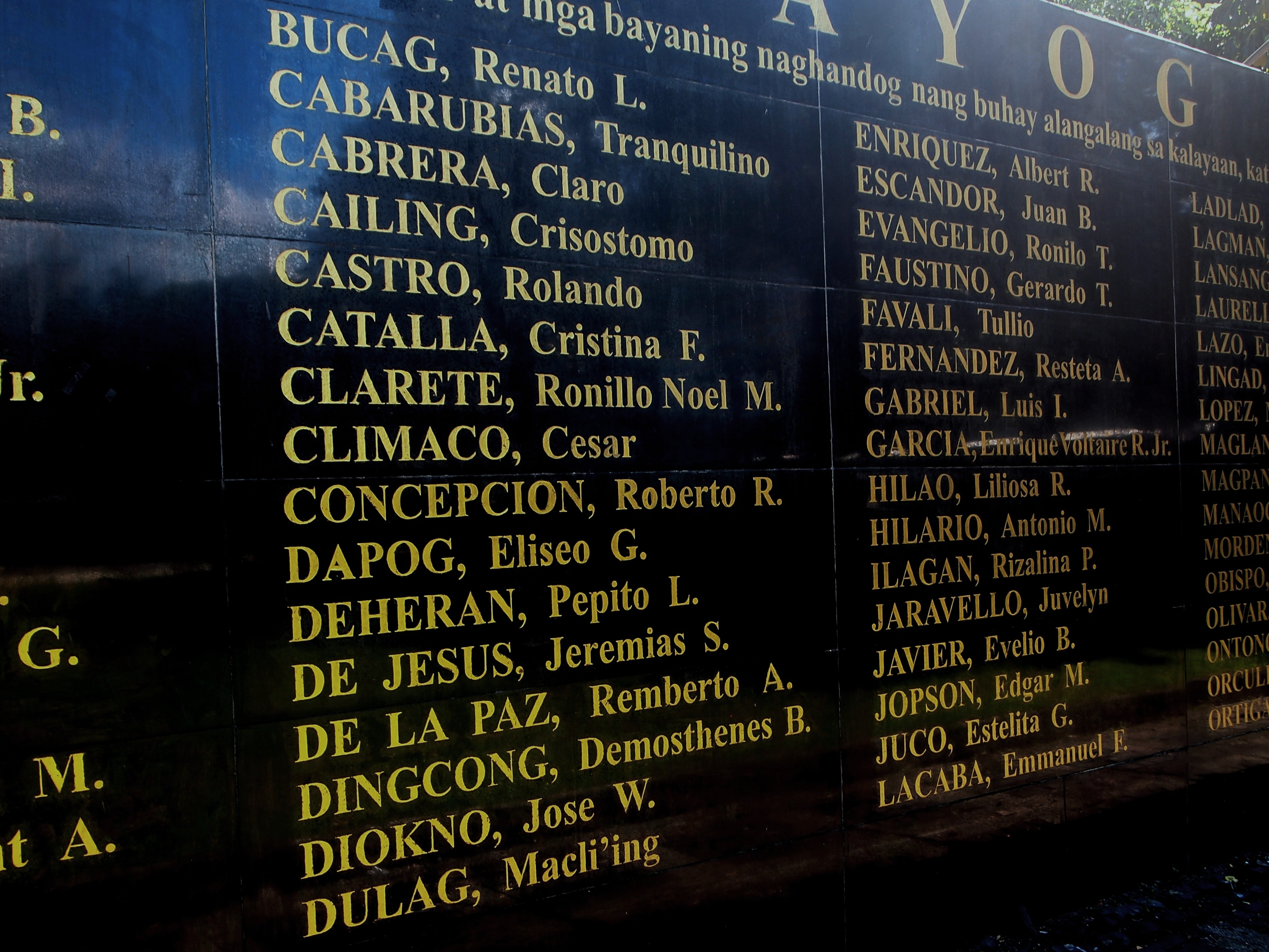 Detail of the Wall of Remembrance at the Bantayog ng mga Bayani, photographed at noon on 15 November 2018, showing names from the first batch of Bantayog Honorees, from Bucag to Lacaba